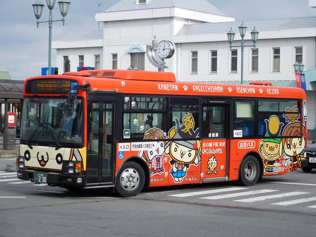 Yamako bus Isuzu Erga mio (PA-LR234J1)for Yonezawa city roop bus (south),"Kanetan-bus".